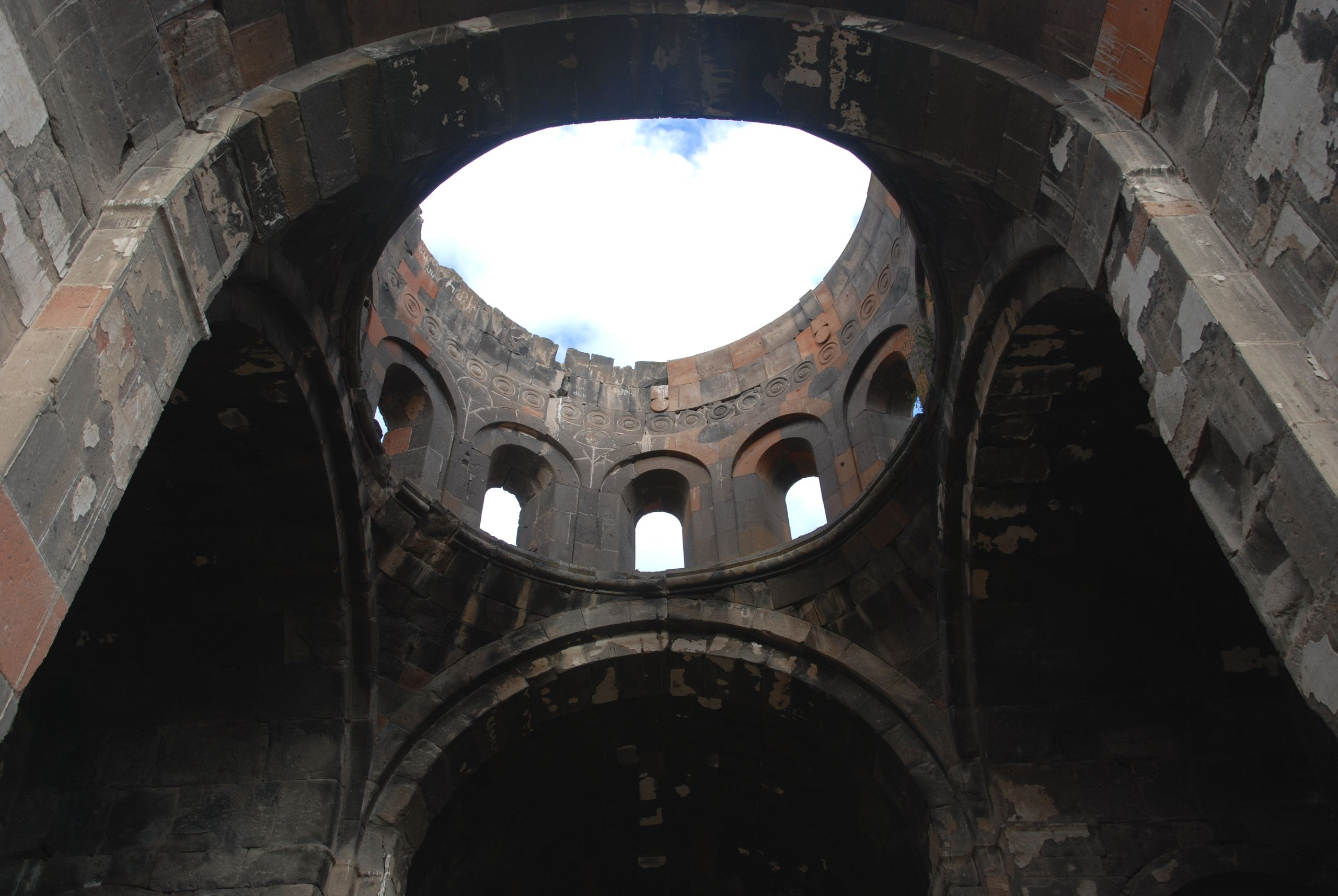 Talin, cathedral, drum